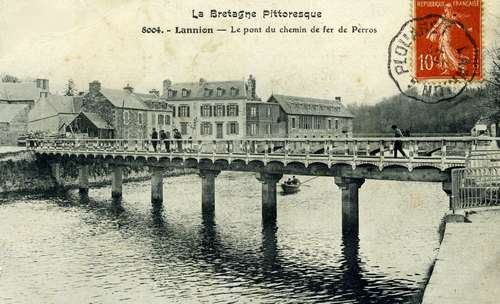 A bridge on Léguer river in the city of Lannion (Britanny) used for the Chemin de fer des Côtes-du-Nord, a former local railway company